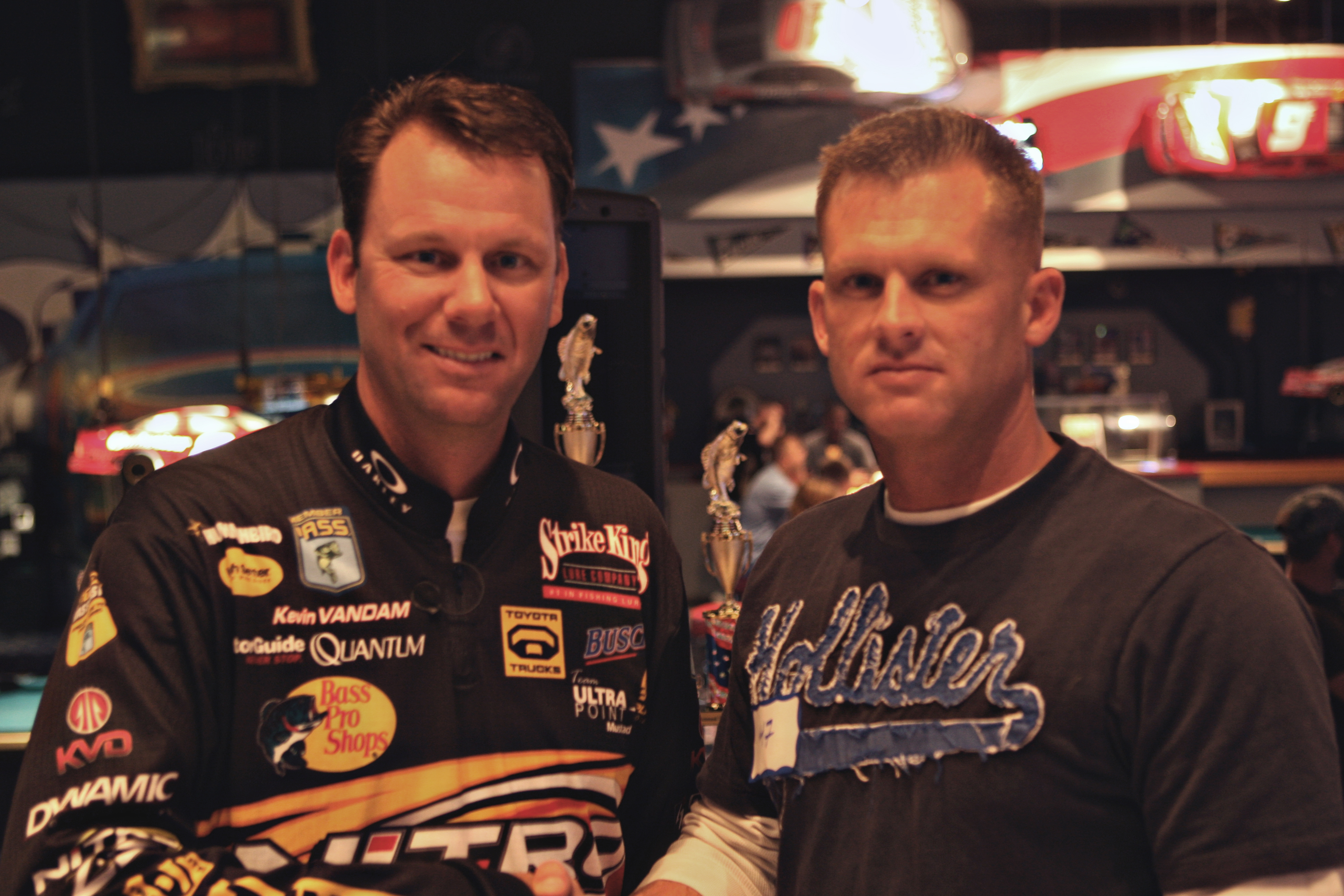 Master Sgt. Anthony Ball, correctional specialist with Headquarters and Support Battalion, Marine Corps Base Camp Lejeune, N.C., stands with Kevin Van Dam, three-time Bassmaster Classic winner and five-time Toyota Tundra Angler of the Year winner, during the 2010 Warriors on the Water Bass Fishing Tournament held at Lake Jordan in Raleigh, N.C., April 23. Marines from HQSPTBn as well as other soldiers, sailors and airmen from other bases competed against each other during this military appreciation event.